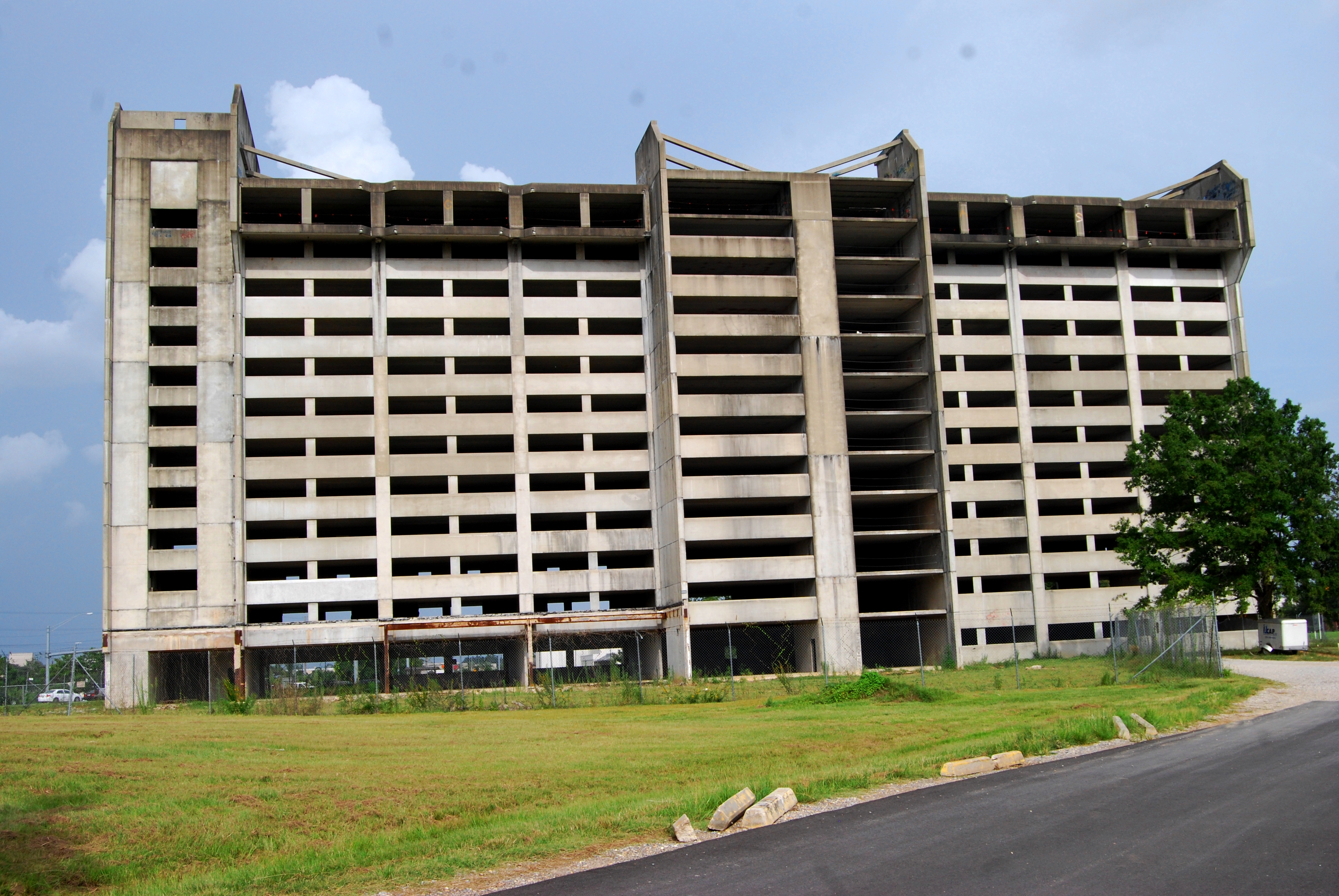 Jimmy Swaggart ministry building abandoned, Baton Rouge, Louisiana. "What I am about to say is strong but I know it to be true. Anyone who has supported this Ministry in the past has done so because of being led by the Lord. When they stopped supporting this Ministry, it was not at the leading of the Lord but because of listening to Satan. I realize that is strong, but I know it to be true. Please let me say it again: Any Believer who has supported this Ministry in the past, and has stopped, at least because of these adversaries, they have not stopped because the Lord has told them to do so, but because Satan has told them to do so and regrettably, they listened to him. Consequently, the Work of God has been hurt greatly. The Truth is, you can listen to men or you can listen to the Lord. You cannot listen to both." -- Jimmy Swaggart